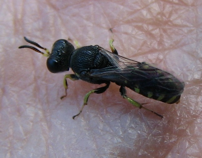 Square headed wasp, Lestica, male. Size: 6-8mm. Willow Grove, Montgomery County, Pennsylvania, USA.